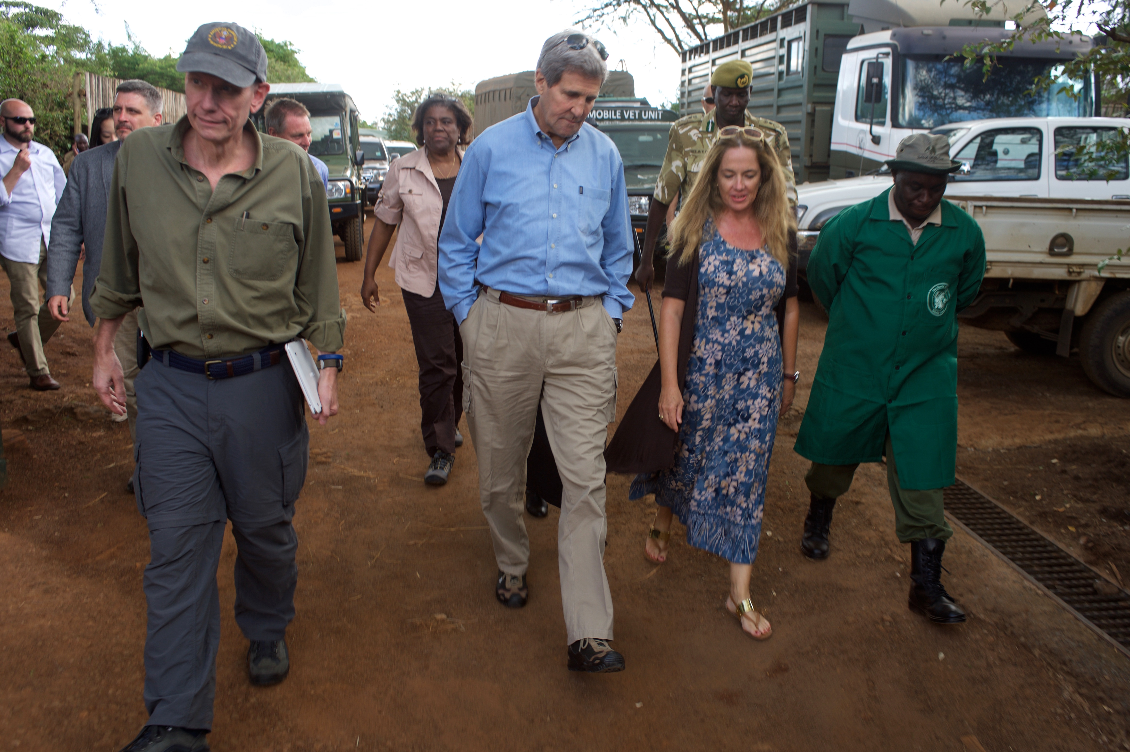 U.S. Secretary of State John Kerry walks with U.S. Ambassador to Kenya Robert Godec, Angela Sheldrick, whose family founded the Sheldrick Elephant Orphanage, and a caretaker as he arrived at the Sheldrick Elephant Orphanage in Nairobi National Park in Nairobi, Kenya, on May 3, 2015, following a tour of the Park and before a series of government meetings. [State Department Photo/Public Domain]